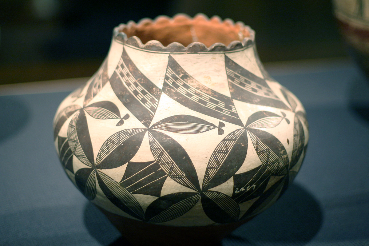 Pueblo, Acoma (Native American). Water Jar, 1868-1900. Clay, pigment, 11 1/2 x 13 in. (29.2 x 33cm). Brooklyn Museum, Riggs Pueblo Pottery Fund, 02.257.2467.